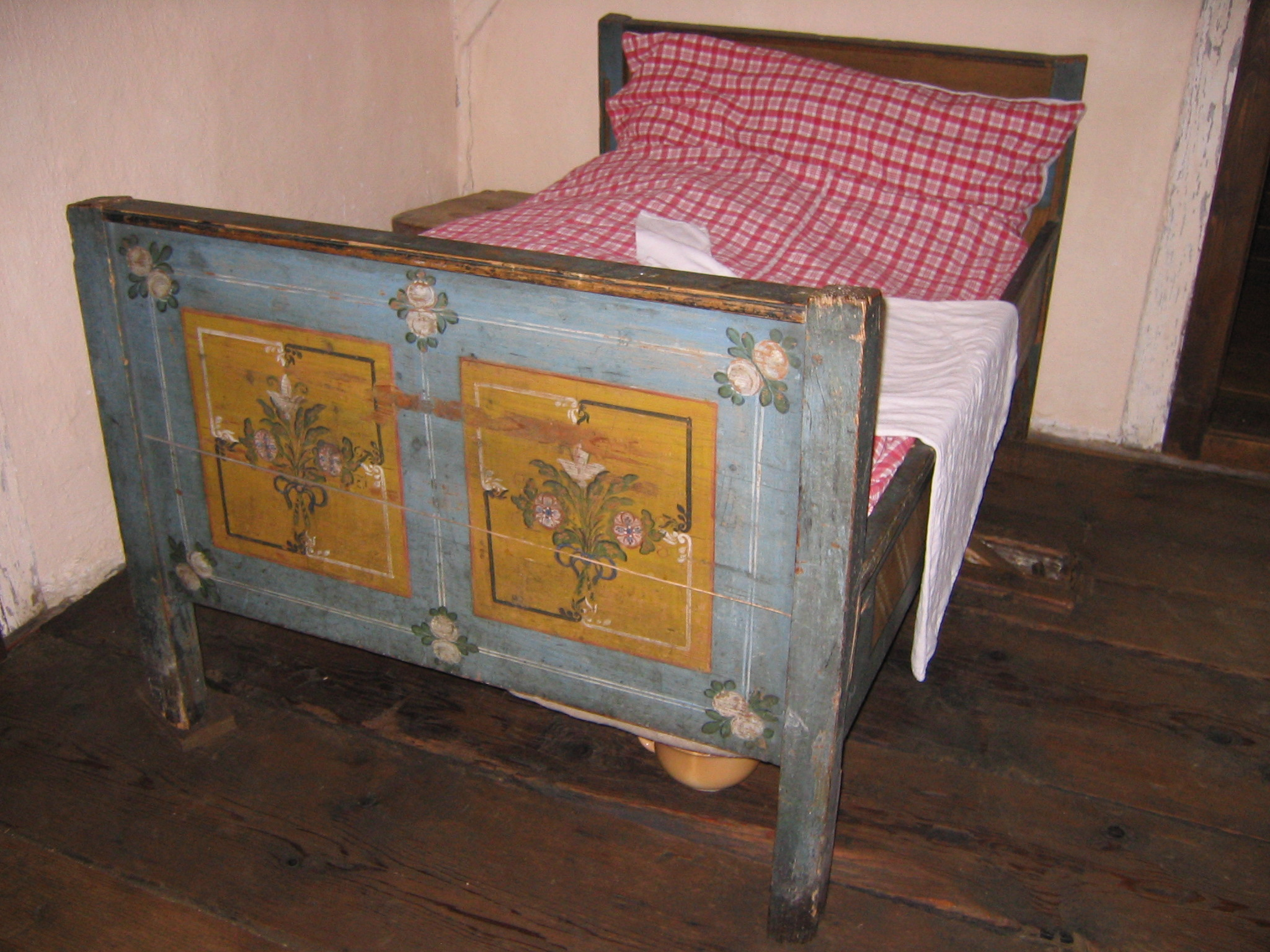 Bed at the Freilichtmuseum Neuhausen ob Eck